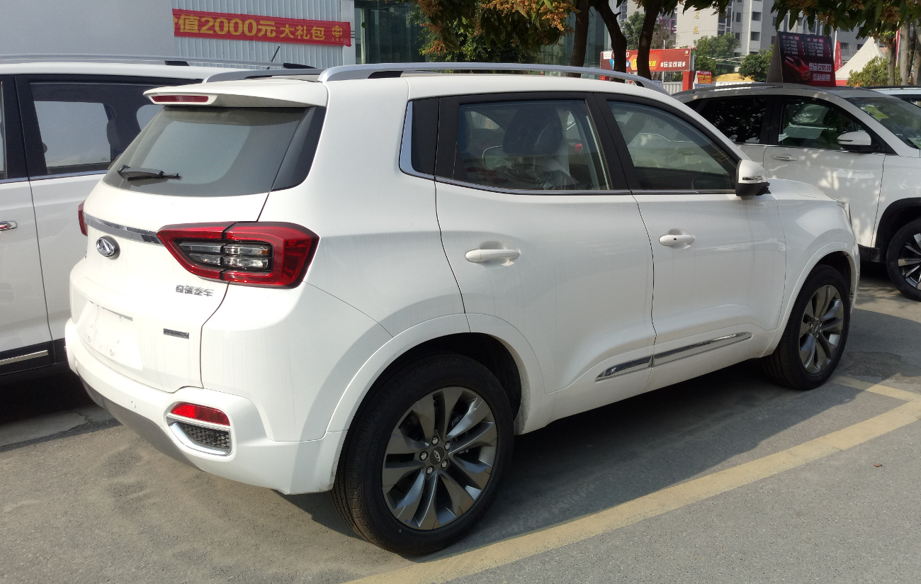 Chery Tiggo 5X photographed in Guangzhou, Guangdong province, China.